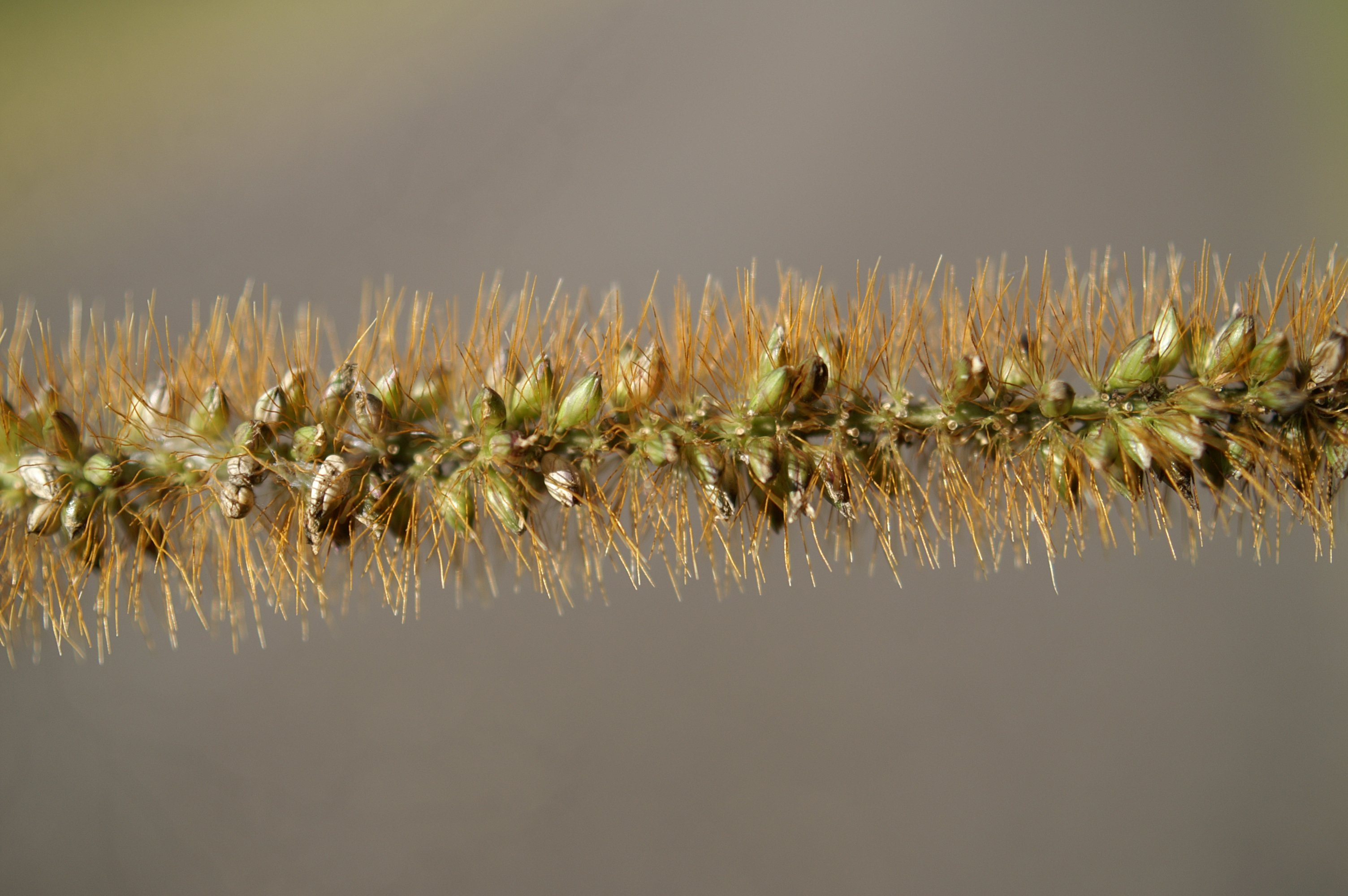 Flowerheads are elongate, spike-like panicles, 8-30 cm long. Brownish bristles occur below each spikelet and remain on the flowerhead when the seed falls.